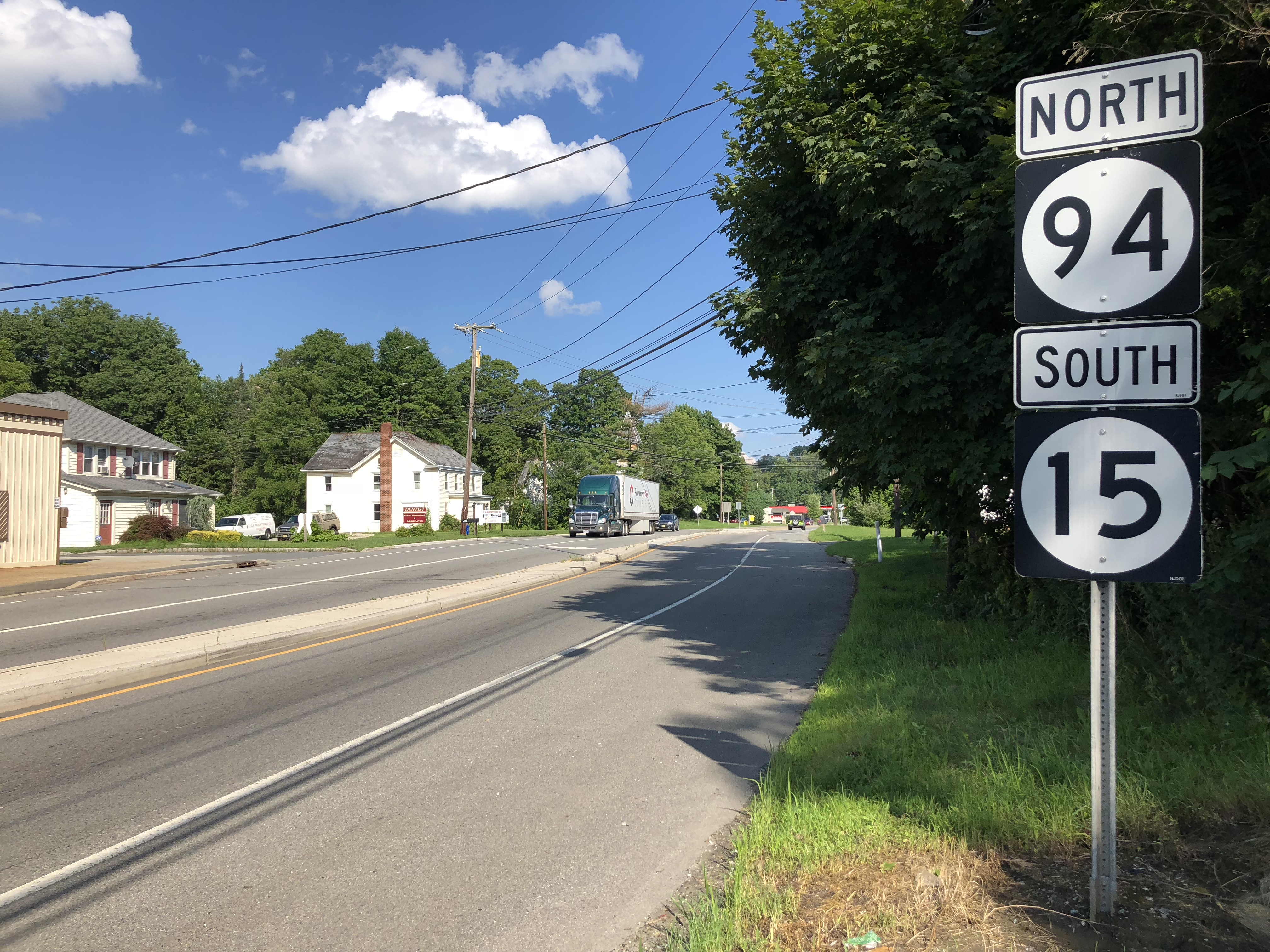 View south along New Jersey State Route 15 and north along New Jersey State Route 94 (Lafayette Road) at Morris Farm Road in Lafayette Township, Sussex County, New Jersey